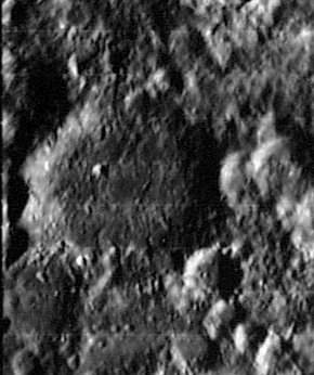 Street lunar crater - Lunar Orbiter IV image LOIV 119 H2